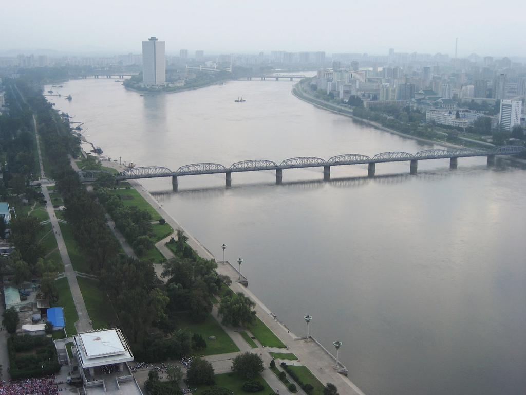 Okryu bridge in Pyongyang on the Taedong river